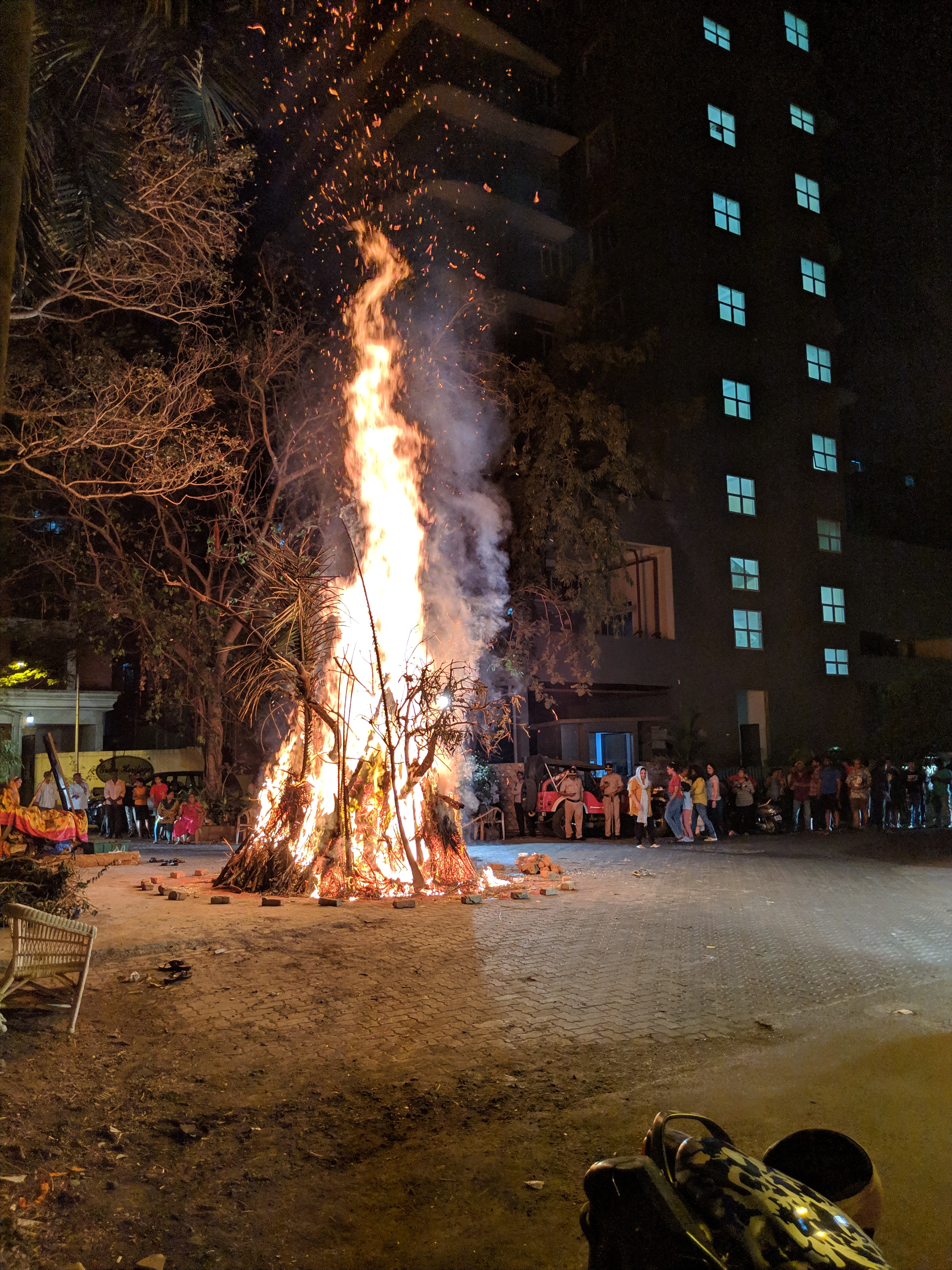 Holika at Bandra West. Mumbai 2019